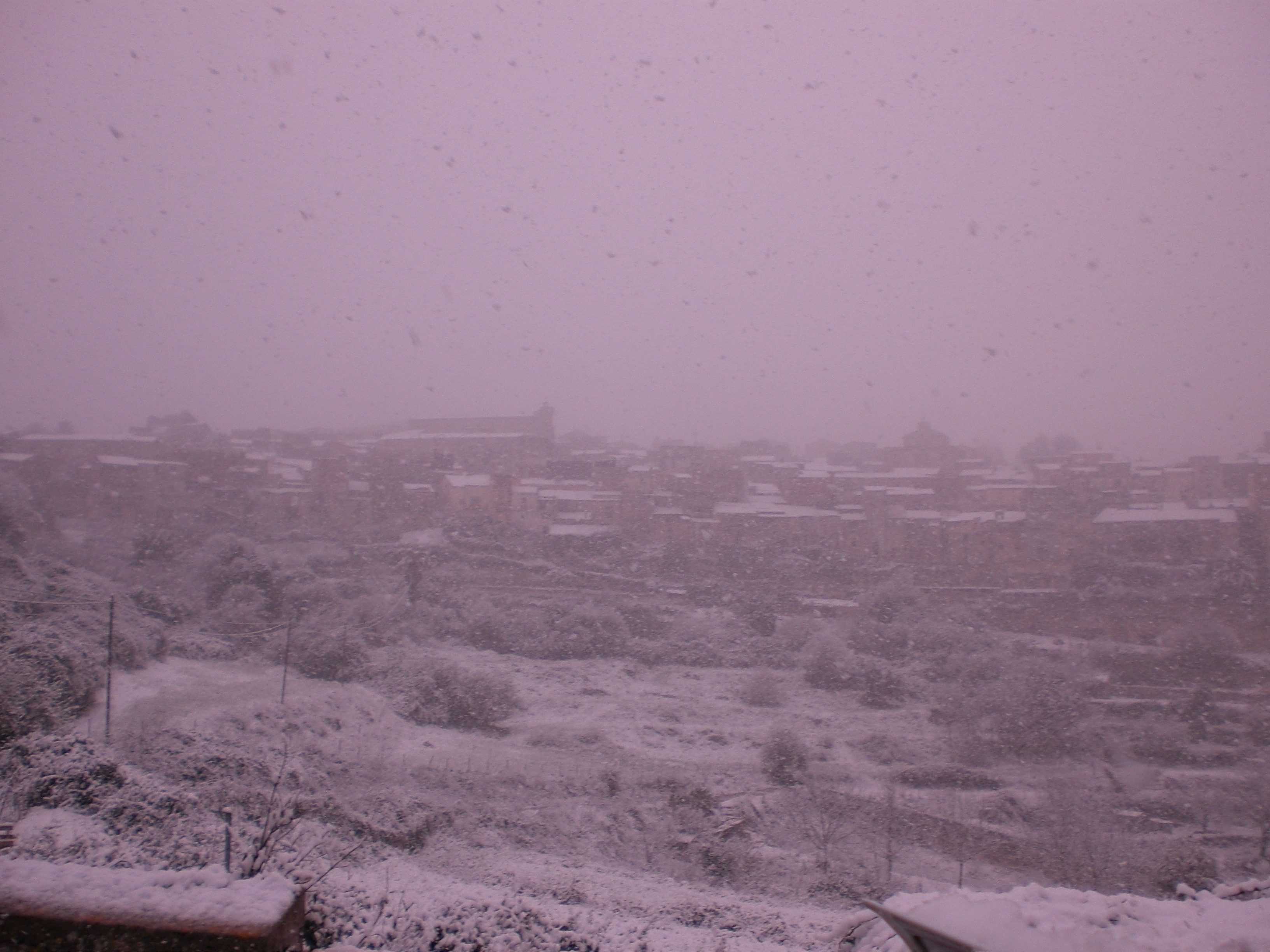 Buscemi during a snowstorm